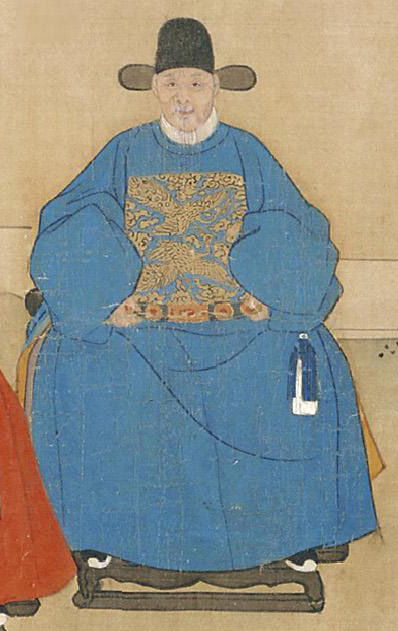 Zhang Da, politician of the Ming Dynasty.